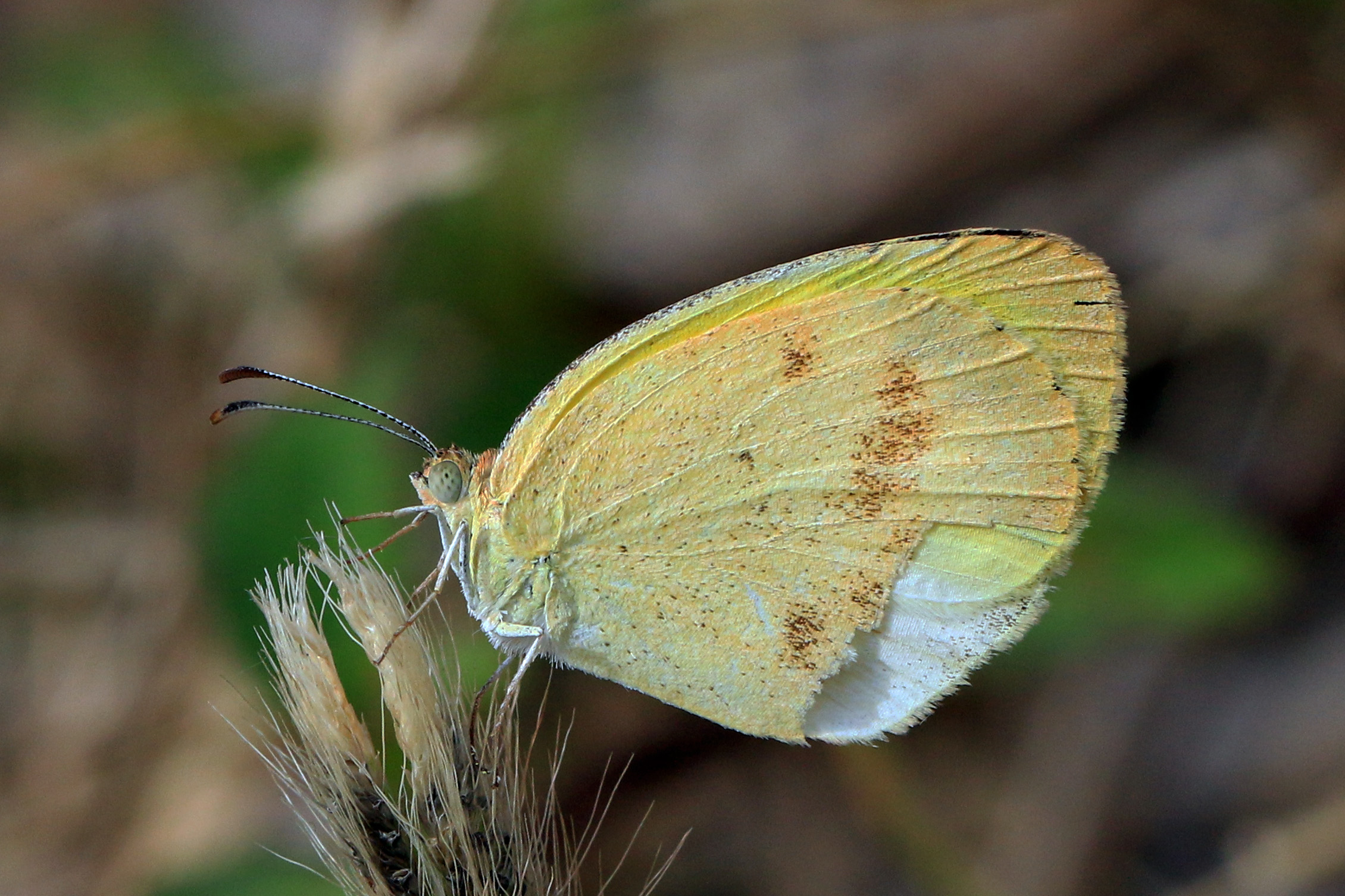 False barred sulphur (Eurema elathea elathea) female, Grand Cayman